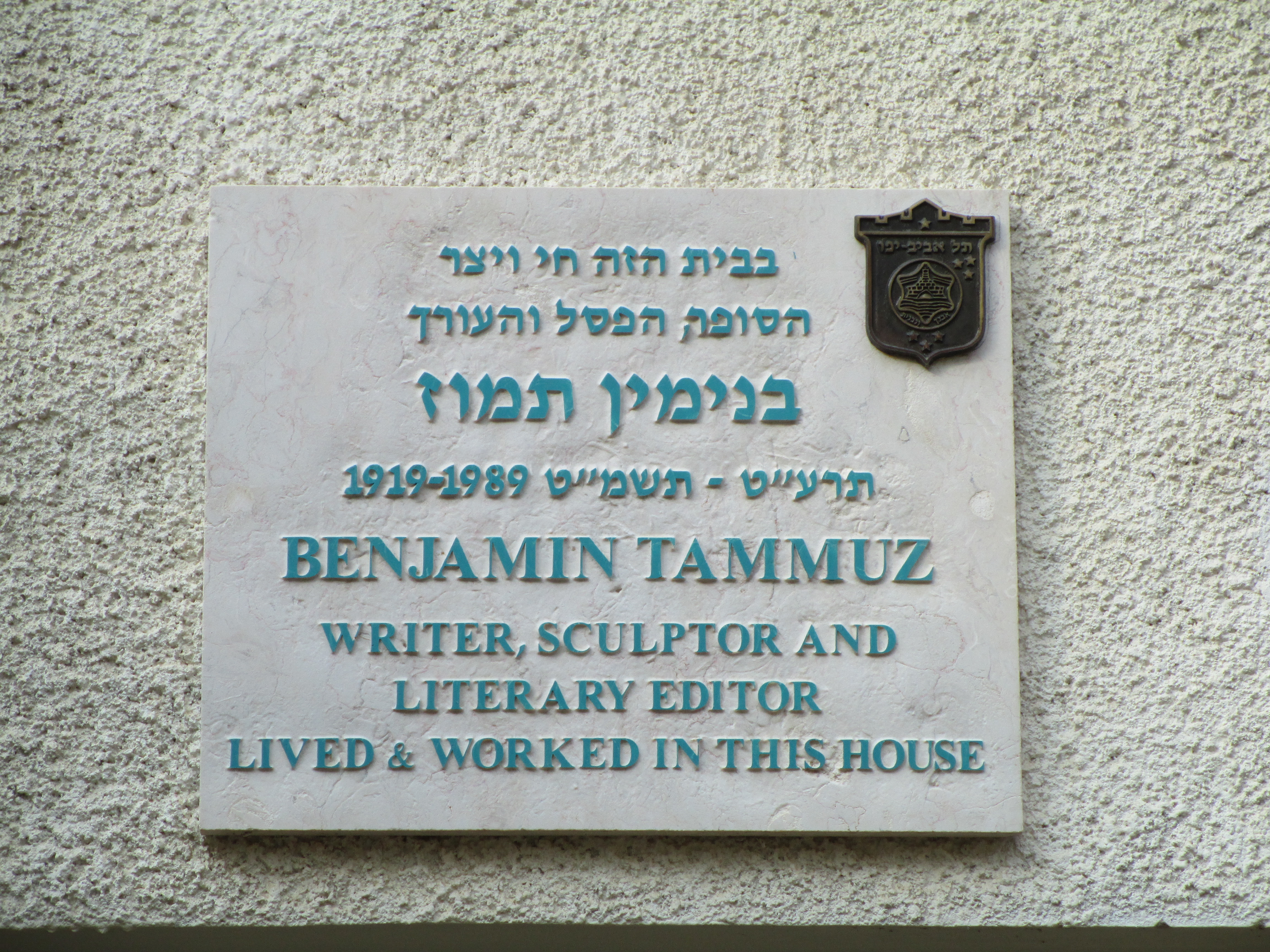 memorial plaque on benjamin tamuz house in tel aviv לוחית זיכרון על ביתו של בנימין תמוז ברח' לוי יצחק 13 בתל אביב